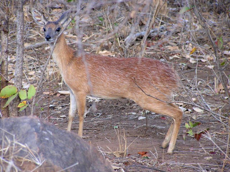 Sharpe's Grysbok (adult ewe) in the Kruger National Park, South Africa